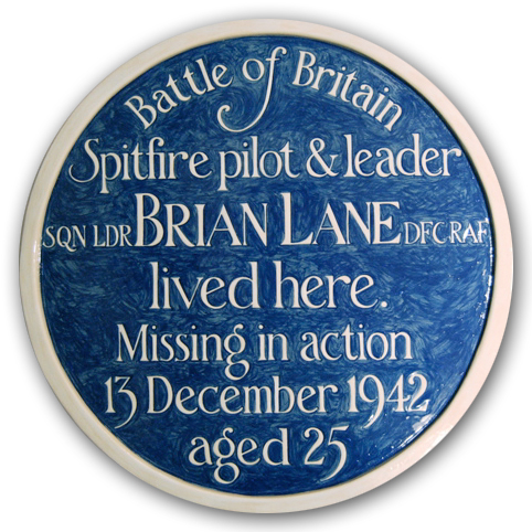 Memorial Plaque to Sqn Ldr Brian Lane DFC unveiled at his former home in Pinner, Middlesex on 25 September 2011